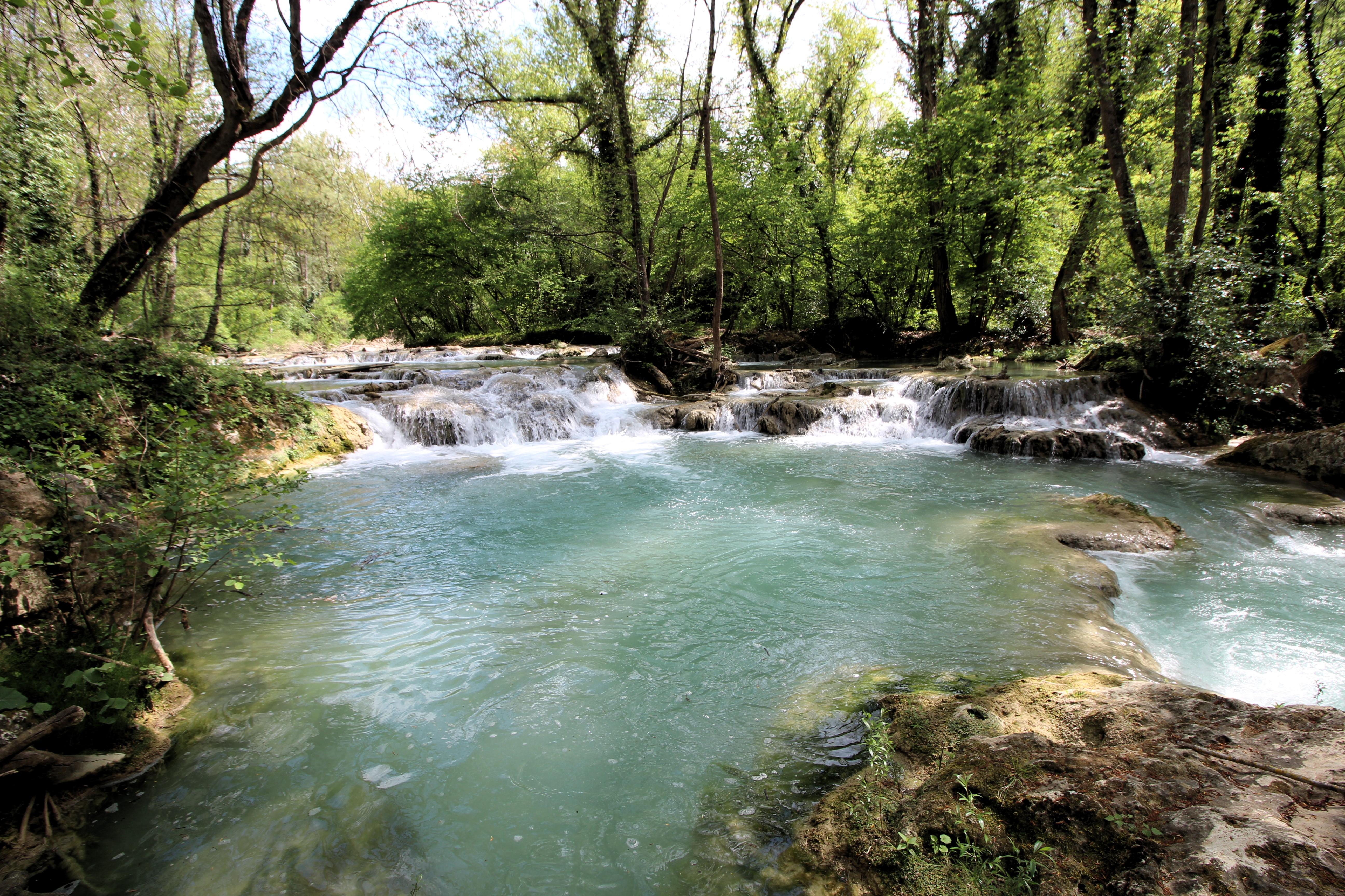 Nature Park Area naturale protetta di interesse locale Parco Fluviale dell'Alta Val d'Elsa, on the River Elsa, Colle di Val d'Elsa, Province of Siena, Tuscany, Italy